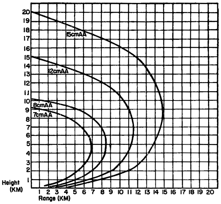 The effective engagement envelope of Japanese anti-aircraft guns in World War II.